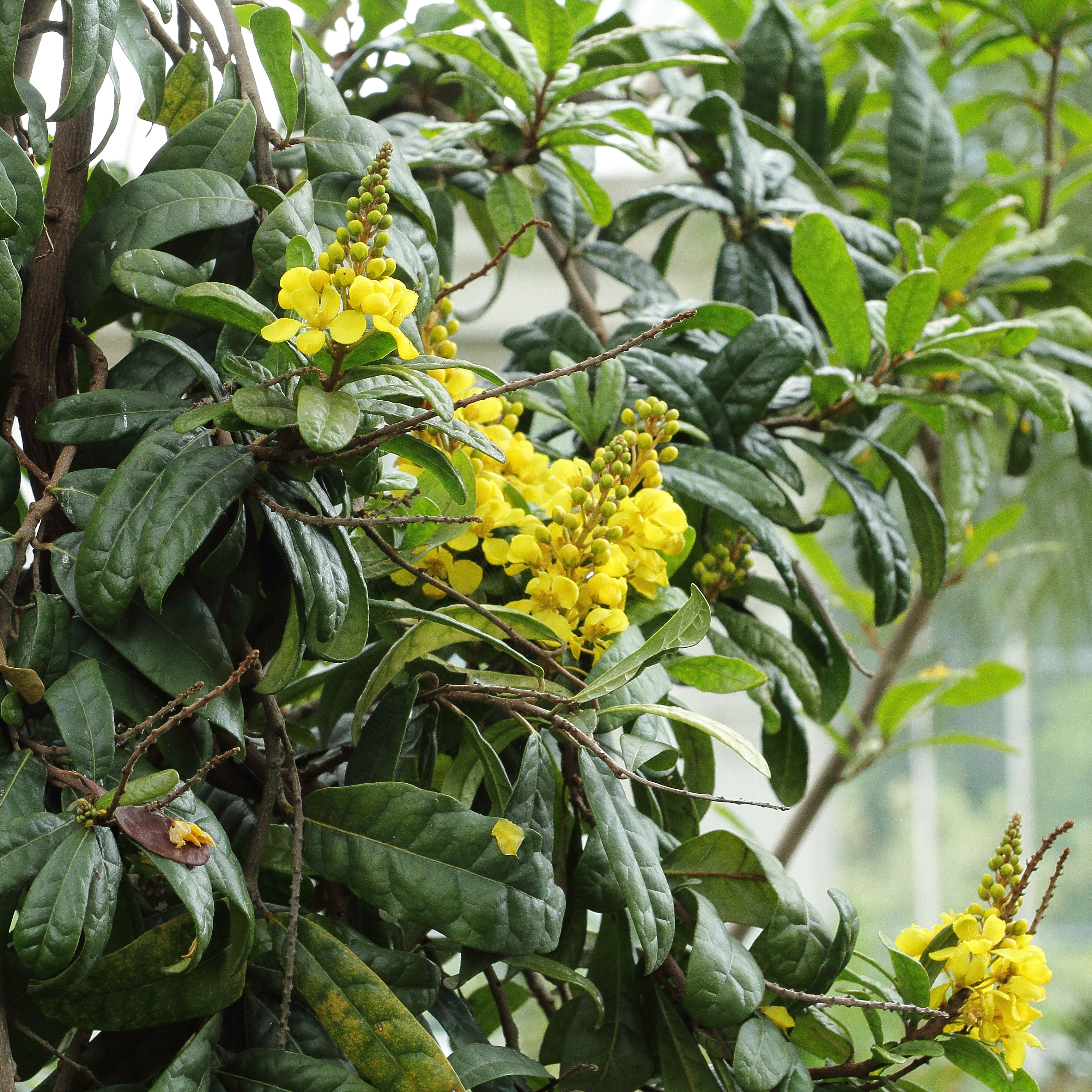 A Moth fruit at Kew Gardens, London